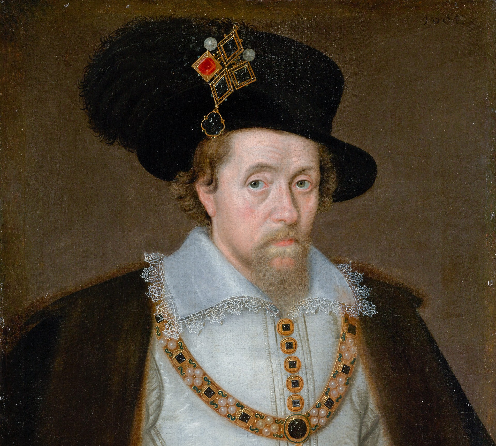 Cropped version of the portrait.